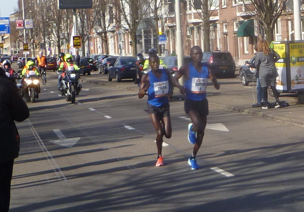 First runners CPC Half Marathon 2017